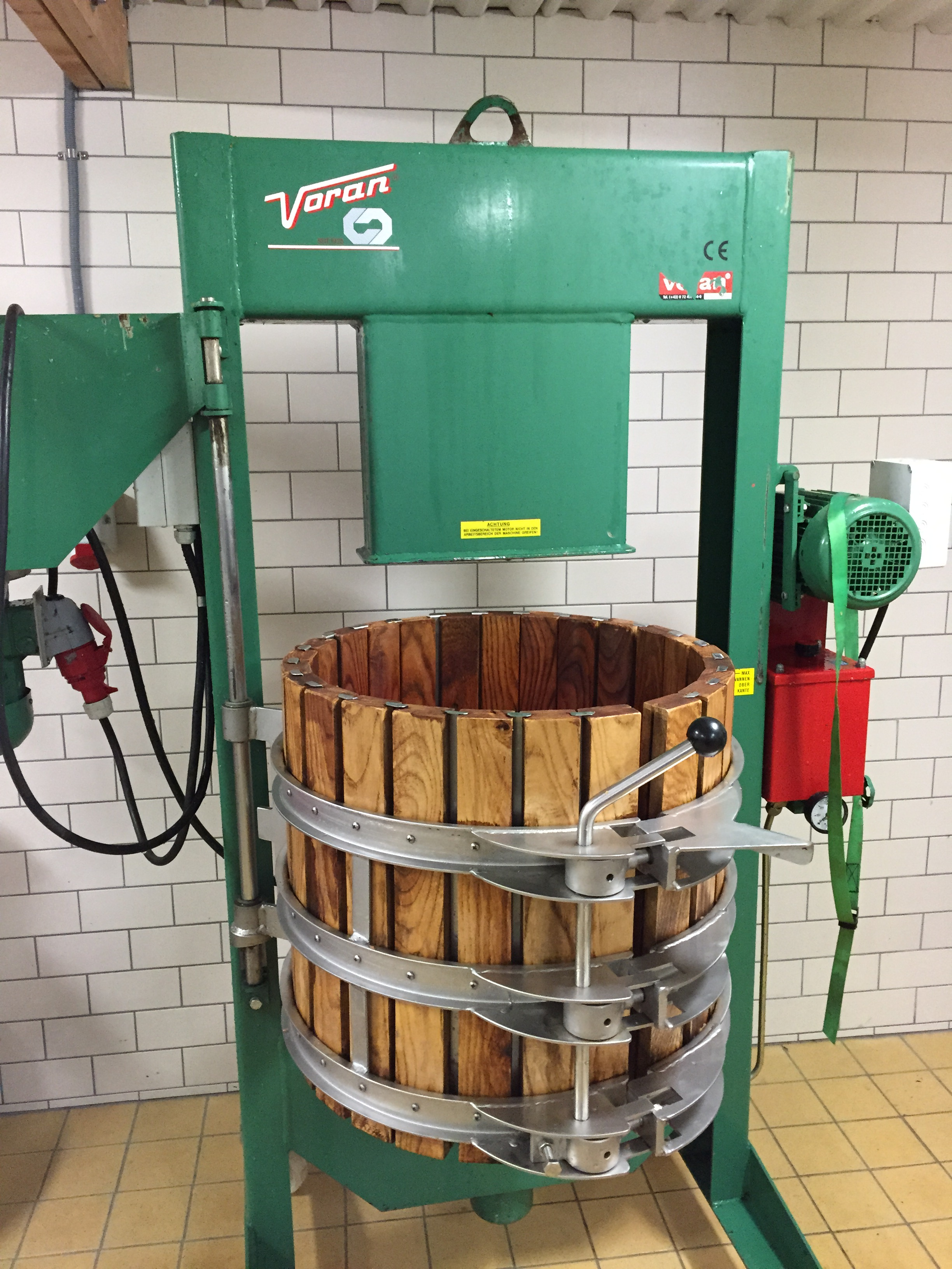 An apple press of the bran Voran, used to pressing apples for making apple juice